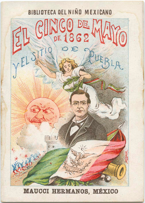 Title: Cinco de Mayo, 1901 poster: El cinco de Mayo de 1862 y el sitio de Puebla Alternative Title: May 5, 1862 and the siege of Puebla Creator: Frias, Heriberto, 1870-1925 Contributors: Posada, Jose Guadalupe, 1852-1913 (illustrator); Maucci Hermanos, Mexico (publisher) Date: 1901 Part Of: Biblioteca del nino mexicano Physical Description: 16 p.: ill.; 12 cm. File: f1226_f74_1899_02_elcinco_opt.pdf Rights: Please cite Southern Methodist University, Central University Libraries, DeGolyer Library when using this image file. A high-quality version of this file may be obtained for a fee by contacting . For more information, see: View Mexico: Photographs, Manuscripts, and Imprints